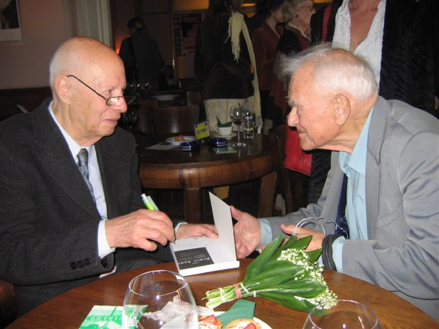 Ryszard Matuszewski (b. August 18, 1914 in Warsaw, Poland, d. April 29, 2010 in Warsaw, Poland) - Polish literary critic, writer, essayist and publicist and Erwin Axer (1917-2012), Polish theatre director